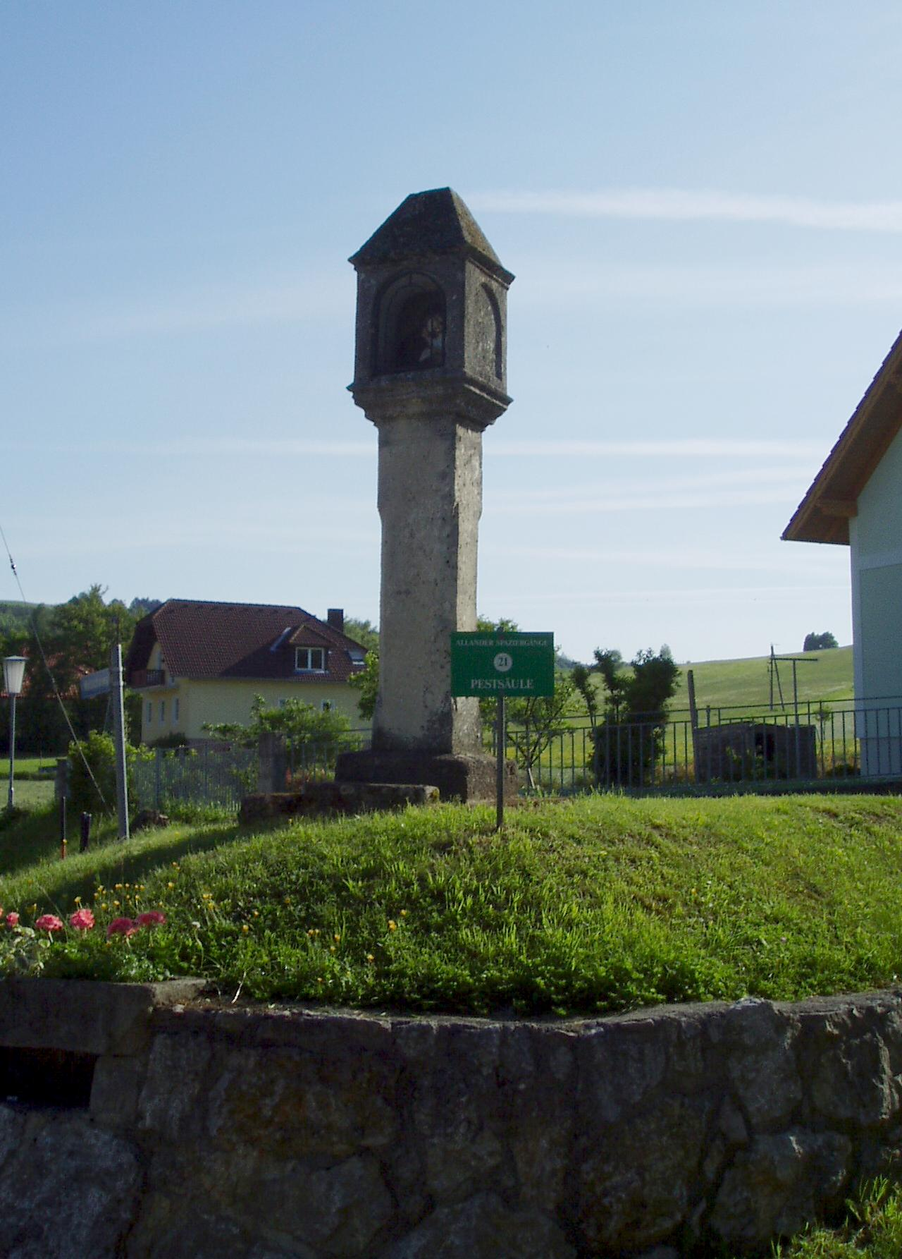 Alland in Lower Austria